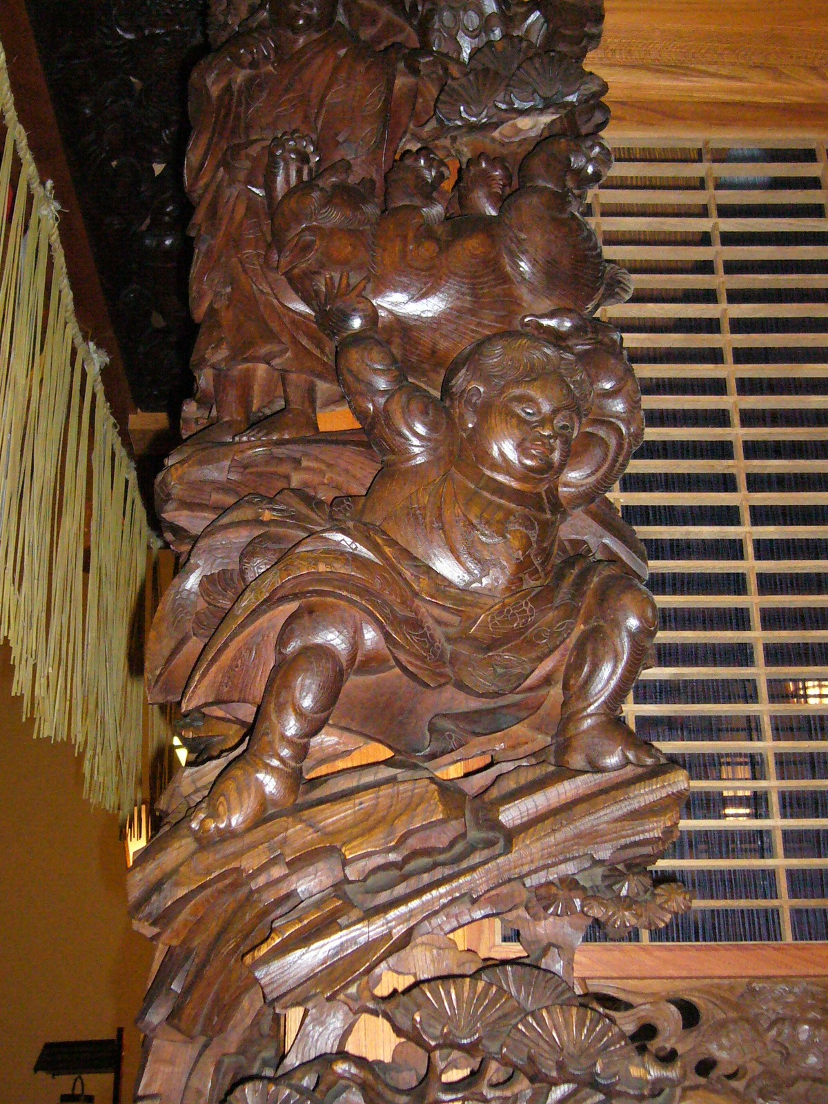 Kintaro sculpture on a float exhibited at the Suigo Sawara Dashi Kaikan museum in Katori City, Chiba Prefecture, Japan